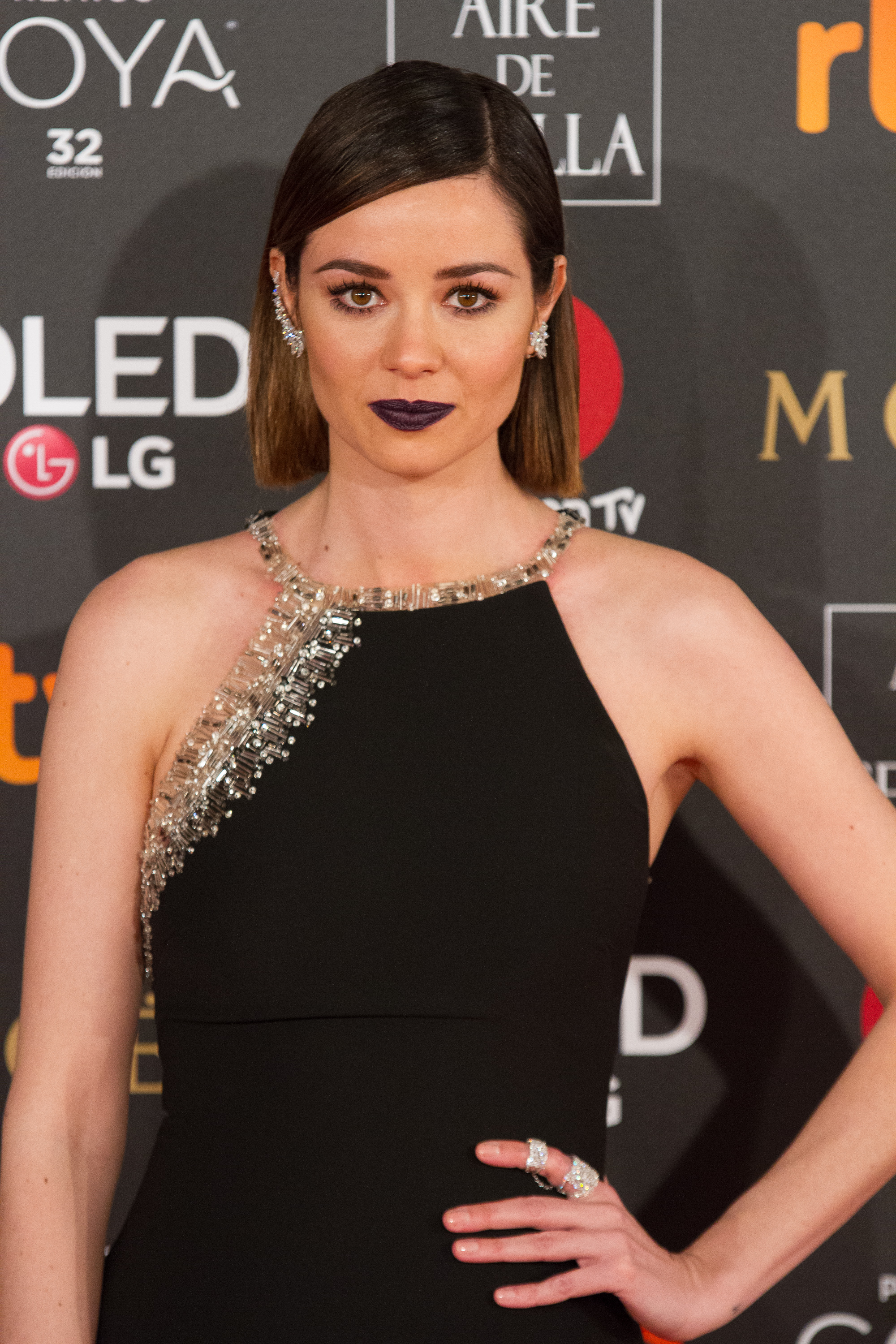 32nd Goya Awards, 2018.